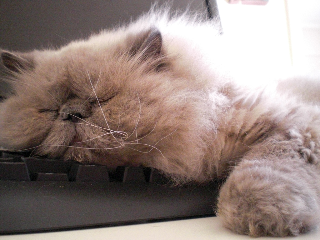 Bluna the Himmy is sleeping on his favorite keyboard